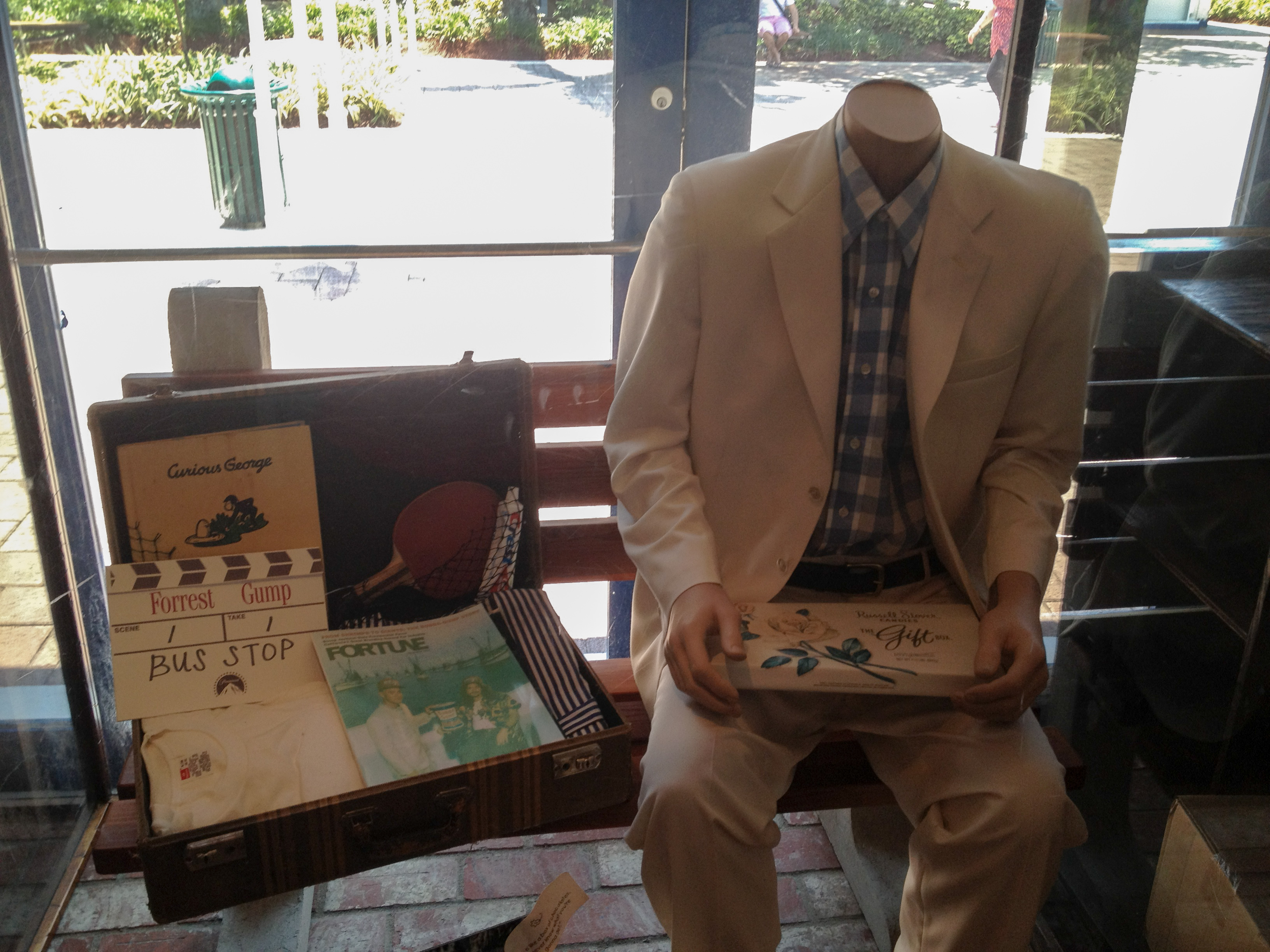 Props from the film Forrest Gump in Seybold, Miami, Florida, USA.